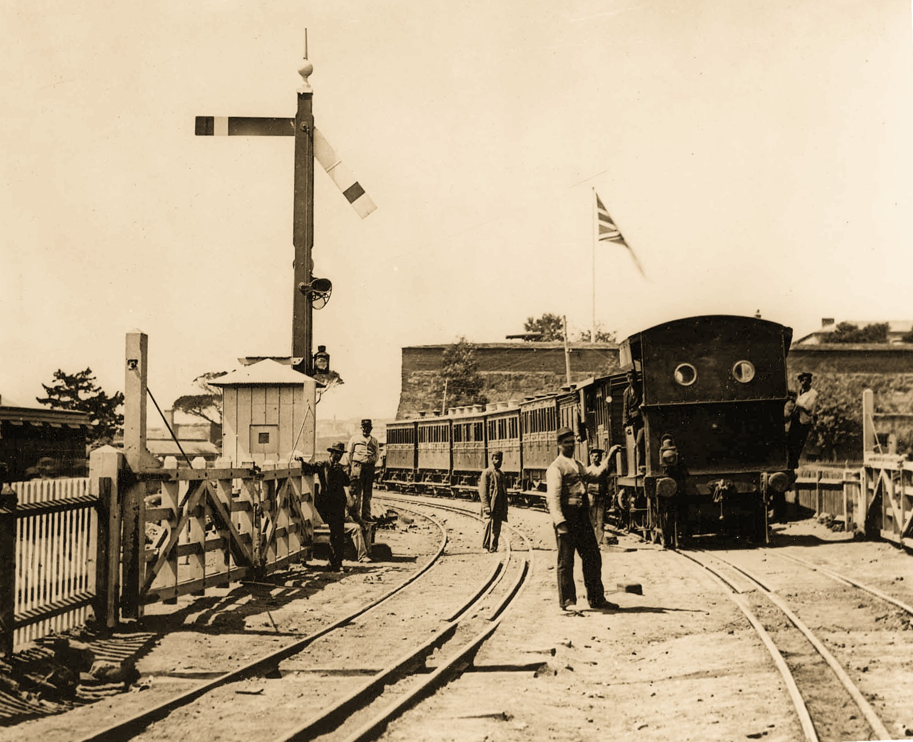 Standard gauge suburban train entering Cape Town station behind a 2-4-0T locomotive on dual gauge track (4 ft 8½ in broad gauge and 3 ft 6 in Cape gauge) on the old Strand street crossing, with the Castle of Good Hope in the background.